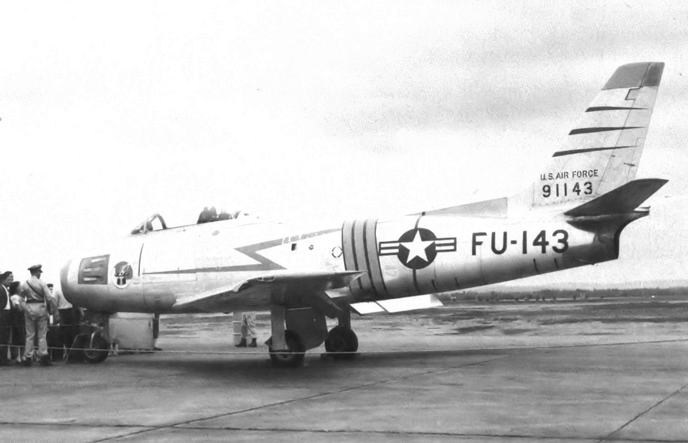 60th Fighter-Interceptor Squadron North American F-86A-5-NA Sabre 49-1143, Westover Air Force Base, Massachusetts, 1951